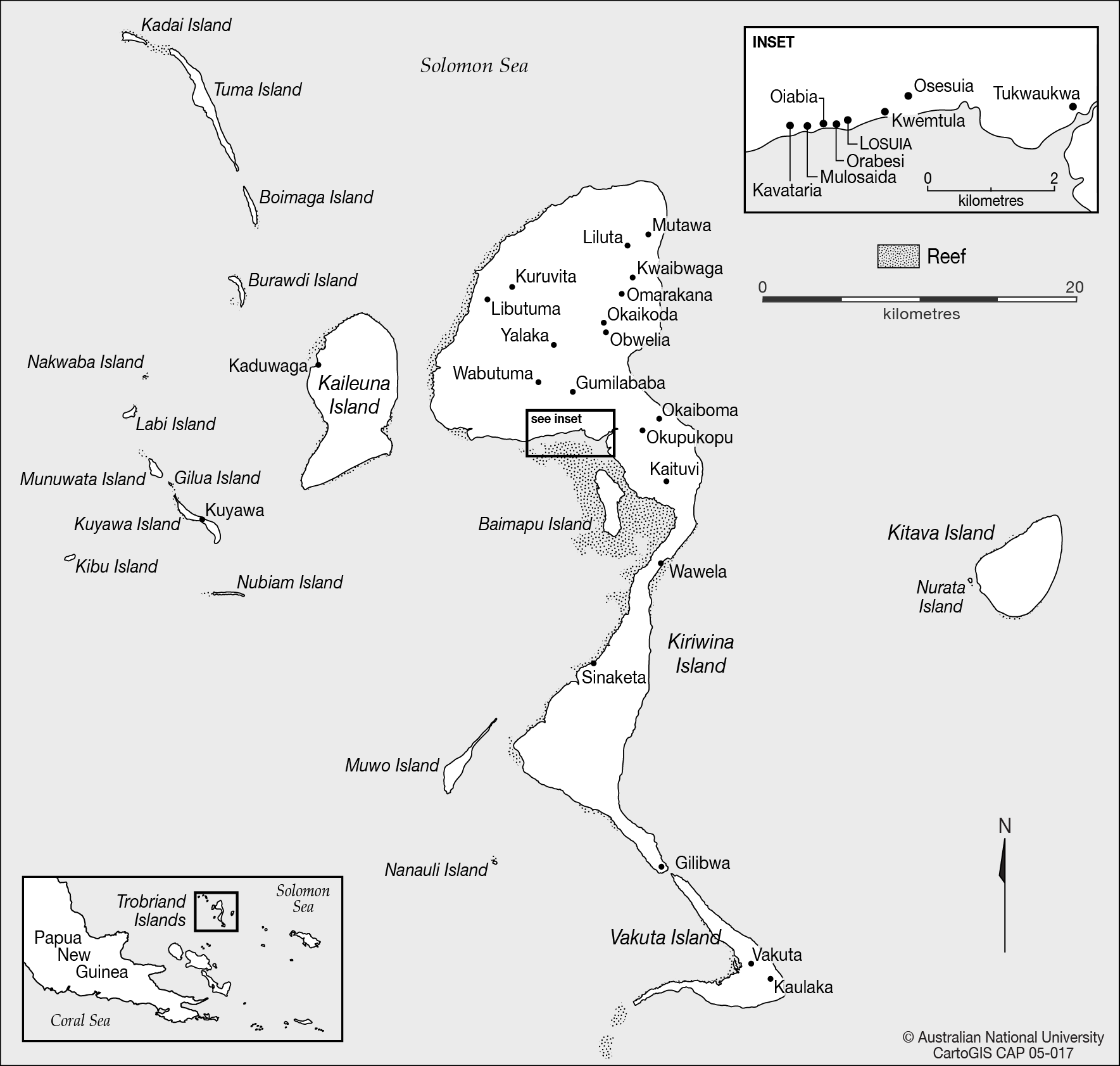 map of Trobriand Islands, Papua New Guinea, Solomon Sea, Pacific Ocean